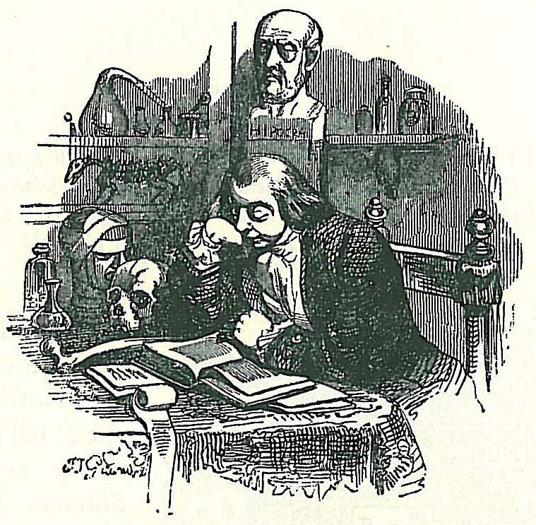 illustration of Jonathan Swift’s novel Gulliver’s Travels by Grandville